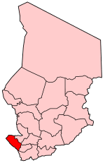 Map of Chad showing Mayo-Kebbi Ouest region.